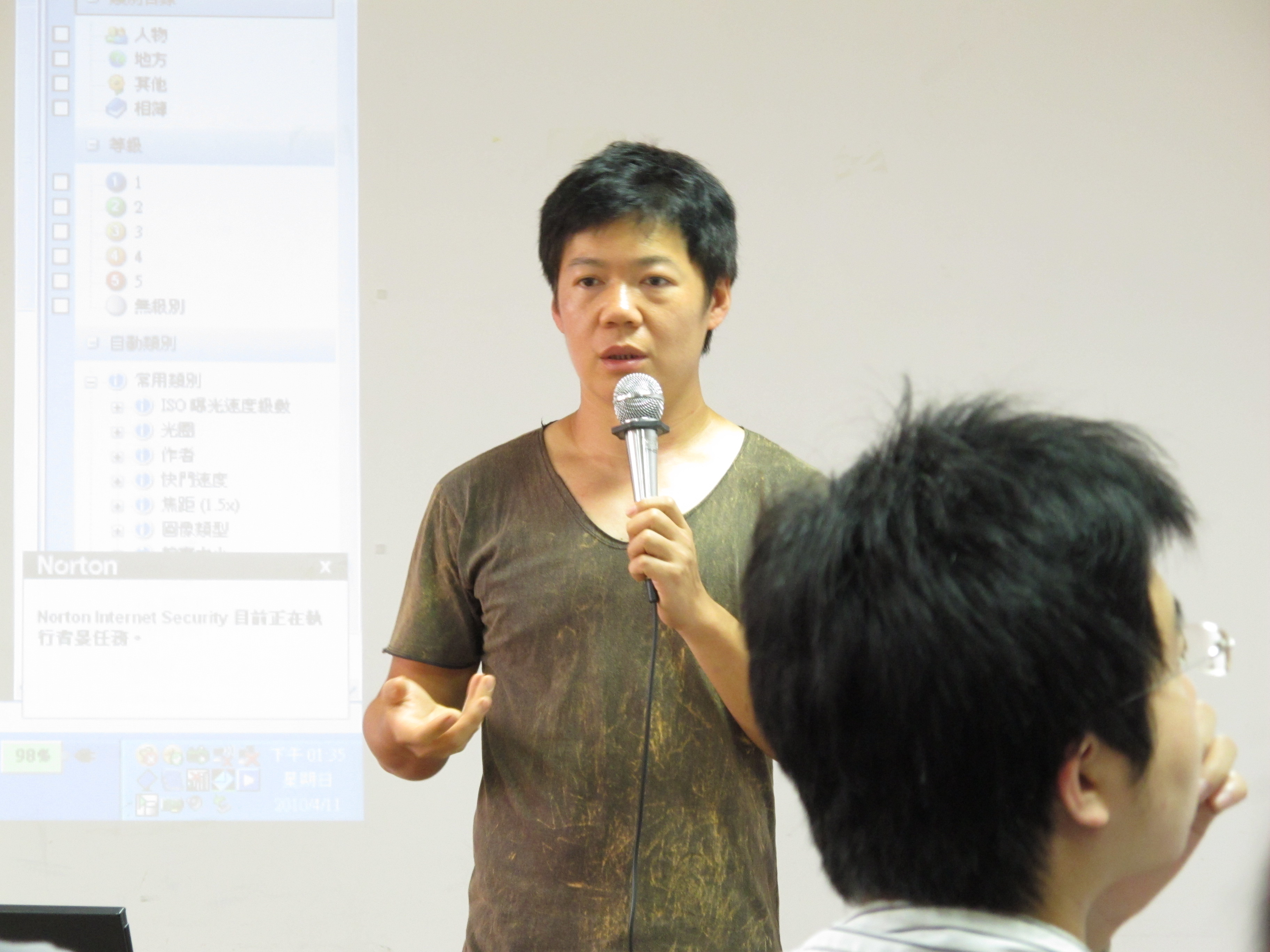 Charlot, Taiwanese plant writer, at Taiwan published the first Chinese illustrated handbook for Carnivorous plants.